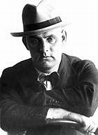 First Russian judoka Vassily Oshchepkov